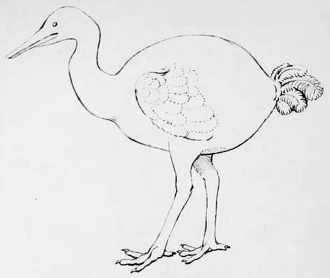 Restoration of the Réunion Solitaire based strictly on contemporary descriptions rather than conjecture, and therefore shows an ibis or stork-like bird rather than a dodo or Rodrigues solitaire-like bird.